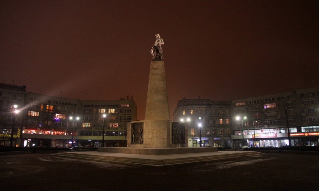 Night view of Plac Wolności, Łódź, Poland, with the monument to Tadeusz Kościuszko floodlit